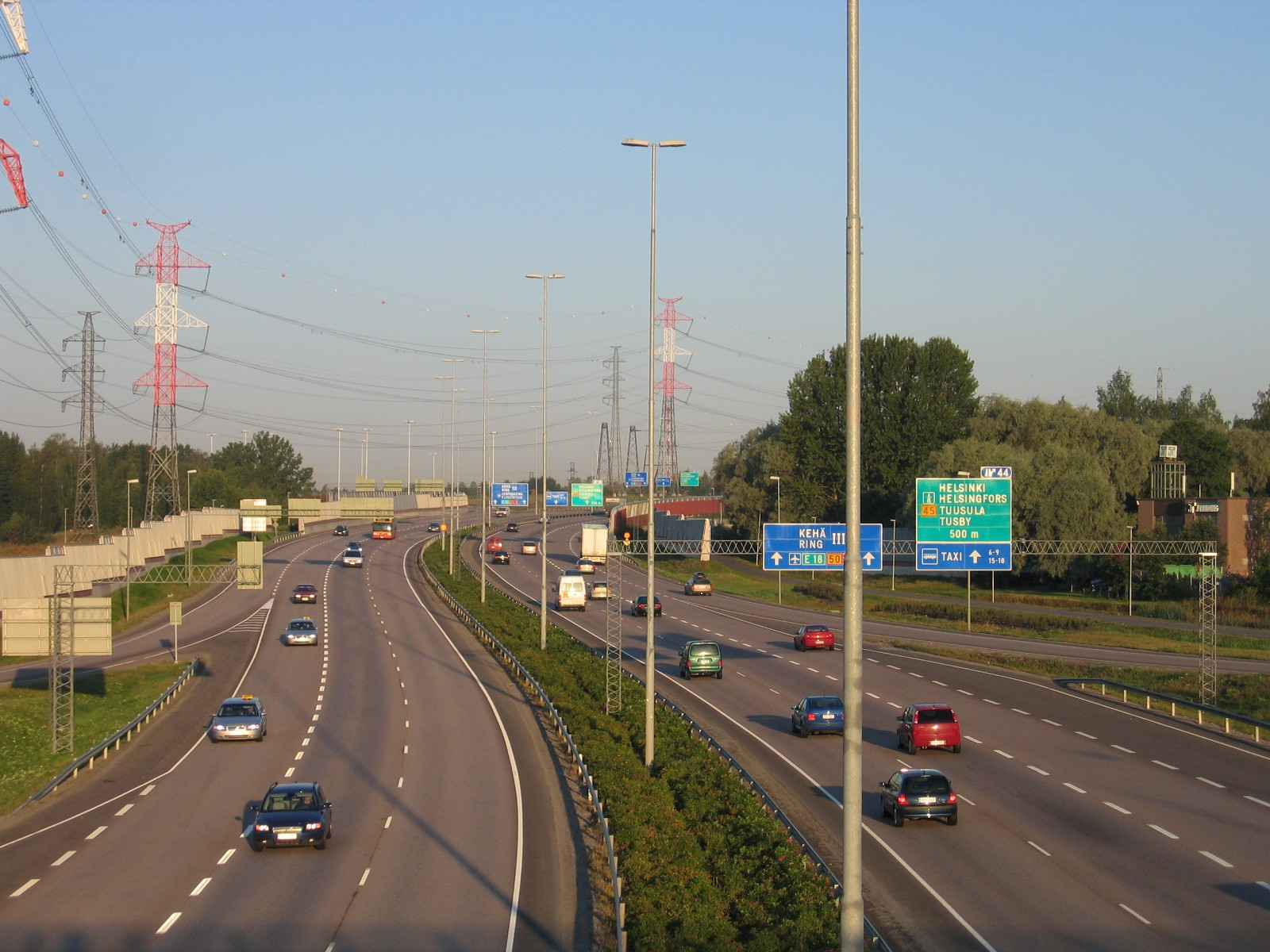 Ring Road III (national road 50, E18) towards Tuusulanväylä in Vantaa, Finland.